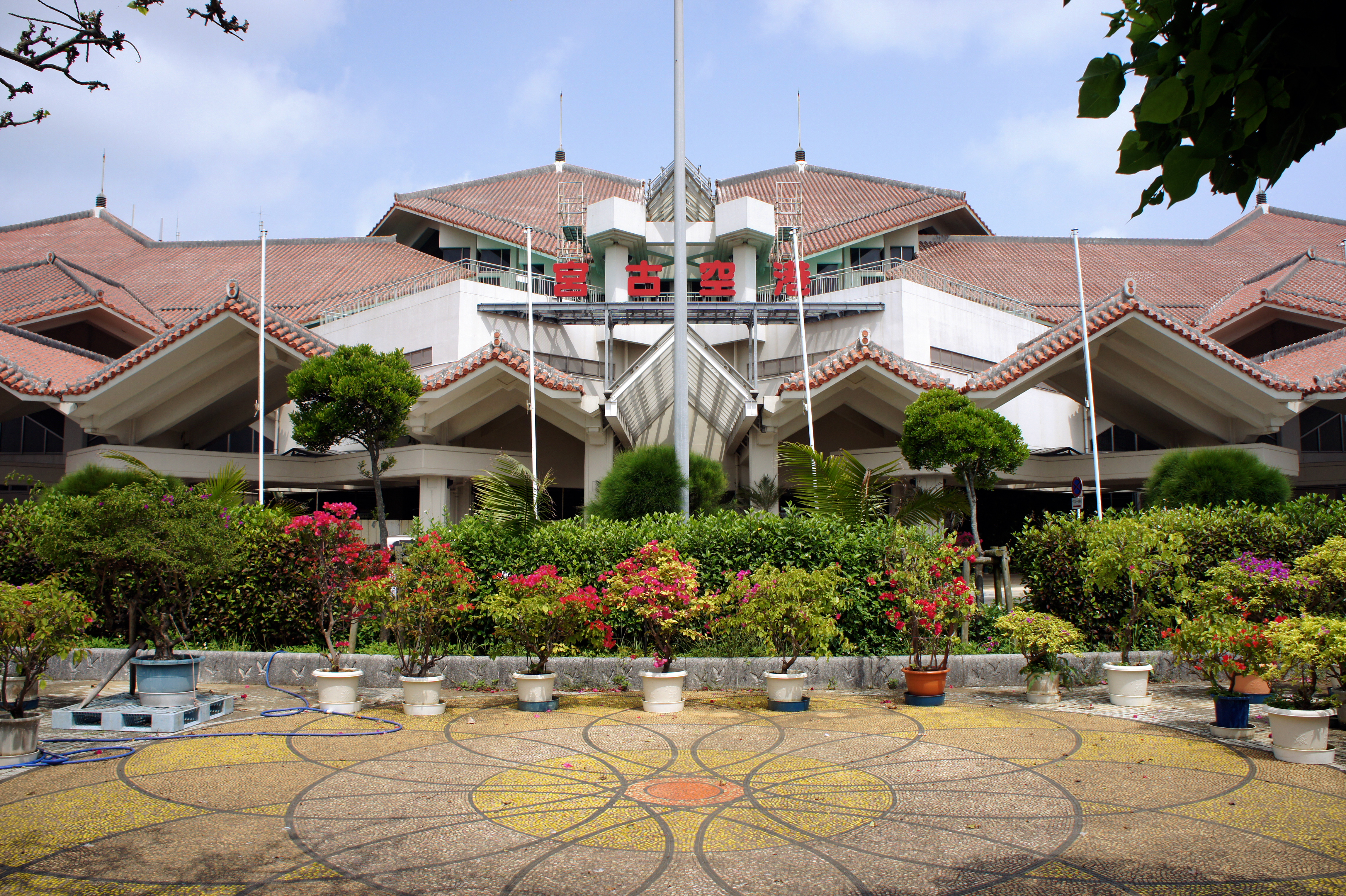 Miyako Airport in Miyakojima, Okinawa Prefecture, Japan.